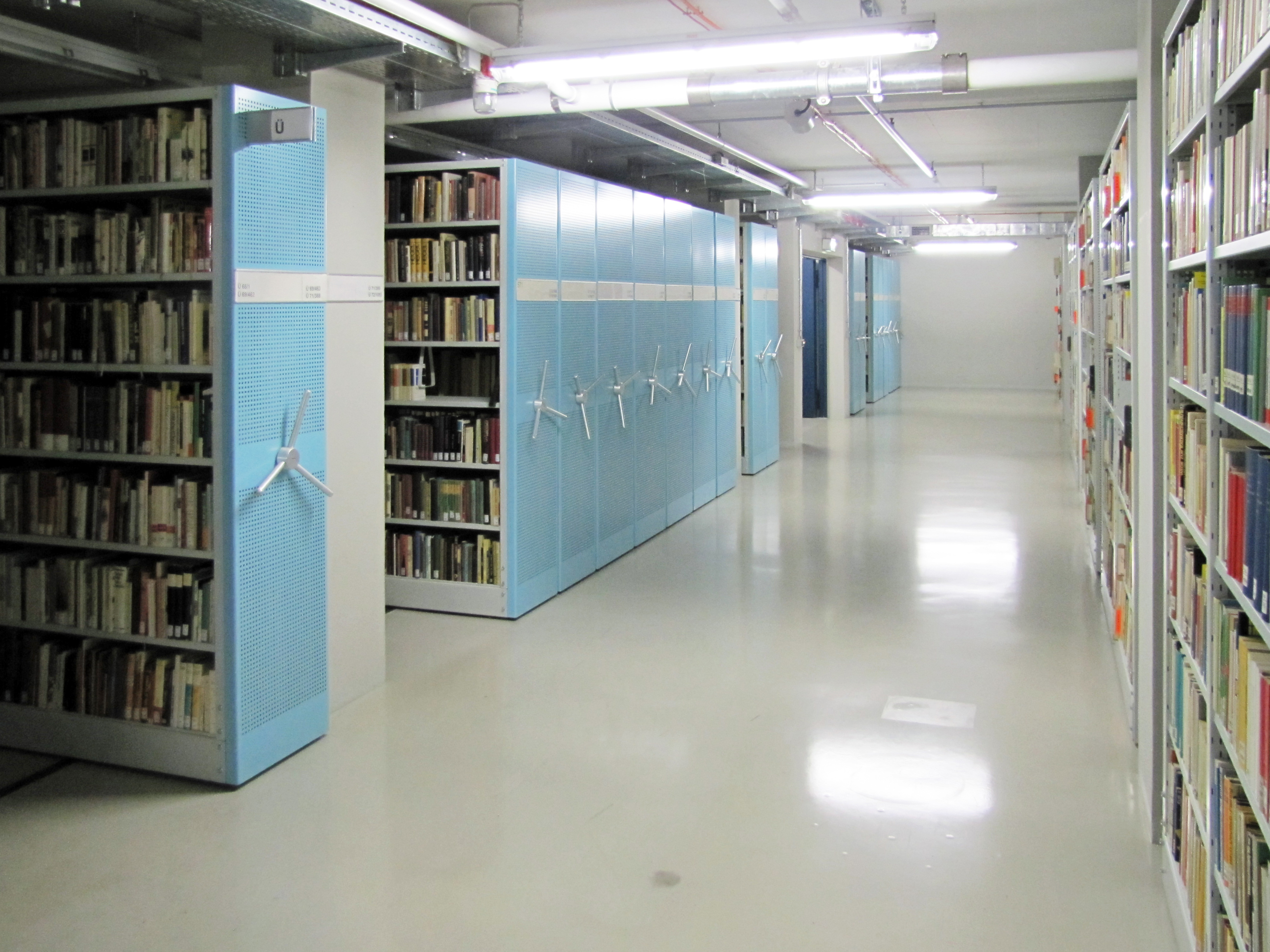 "Deutsche Nationalbibliothek" (German National Library), department Frankfurt am Main, part of magazin at basement.